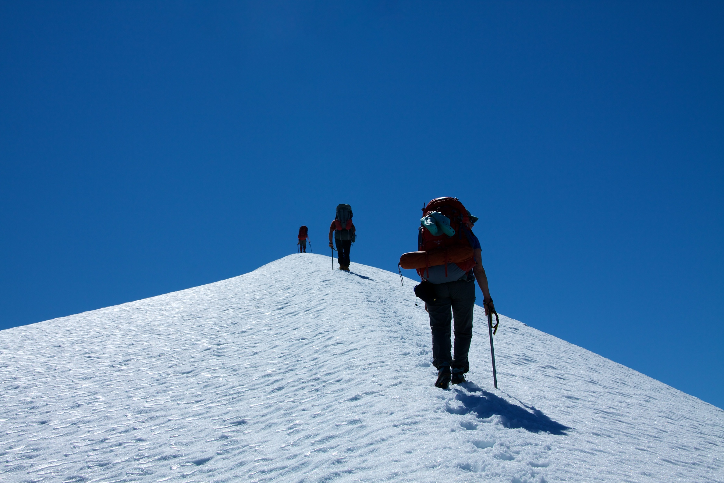 Approaching the summit